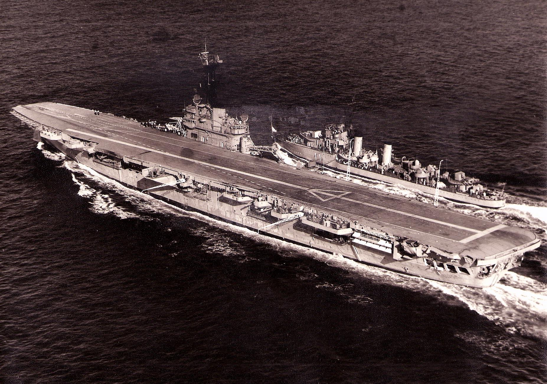 First aircraft carrier of Argentina ARA Independencia (V-1) and destroyer ARA Misiones (E-11)